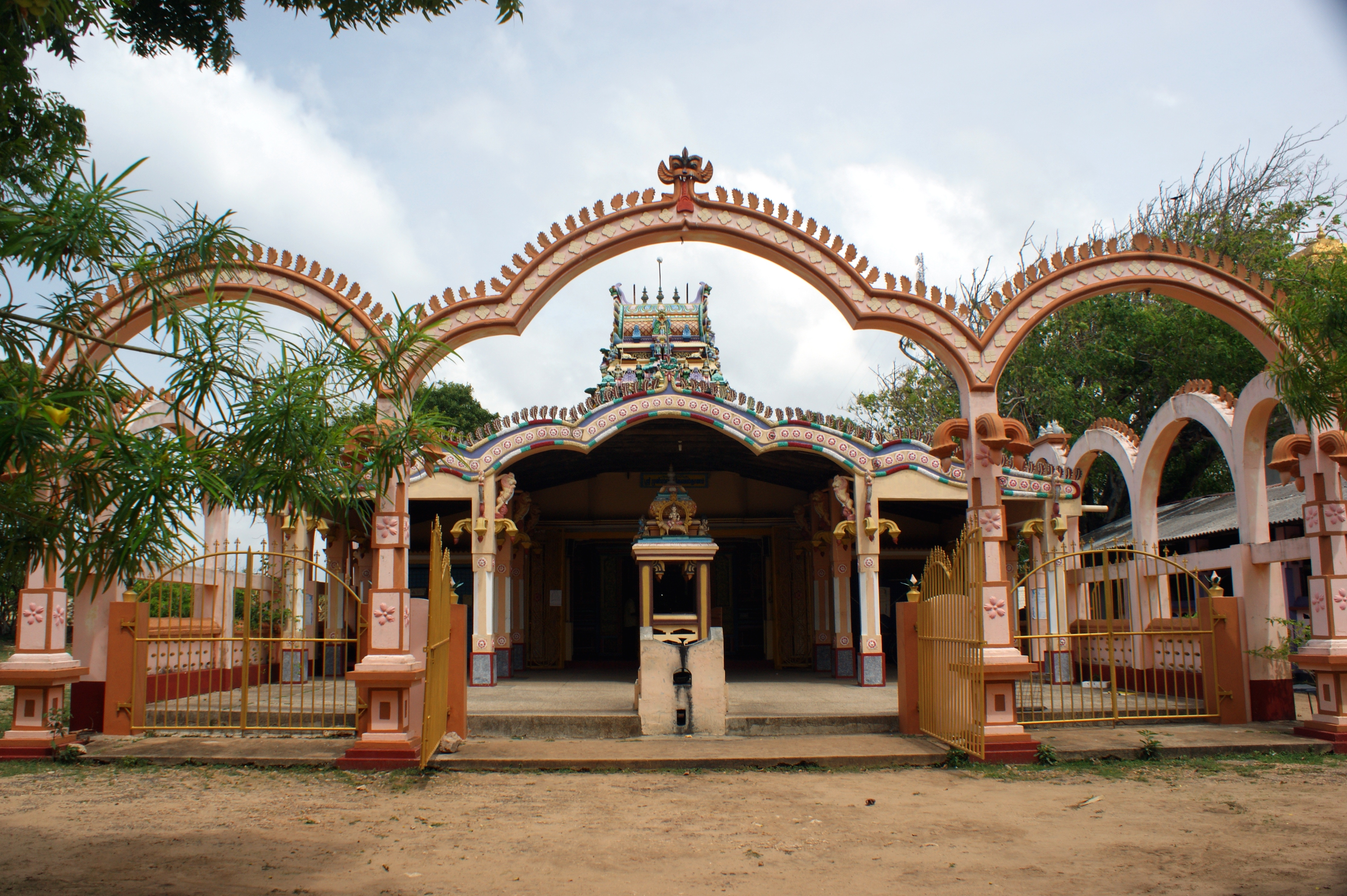 Muneesawarar Kovil